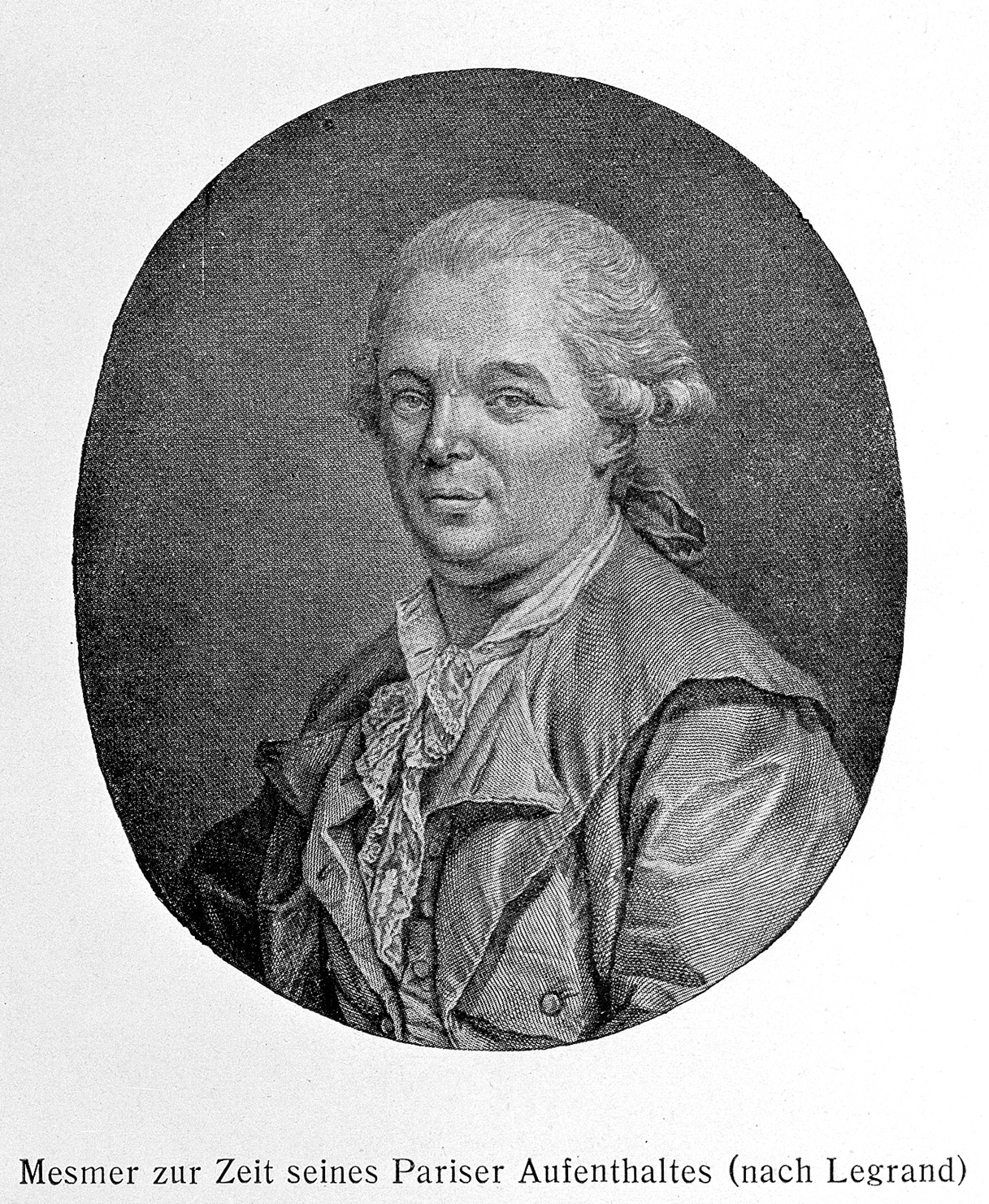 Portrait of Franz Anton Mesmer General Collections Keywords: Friedrich Anton Mesmer